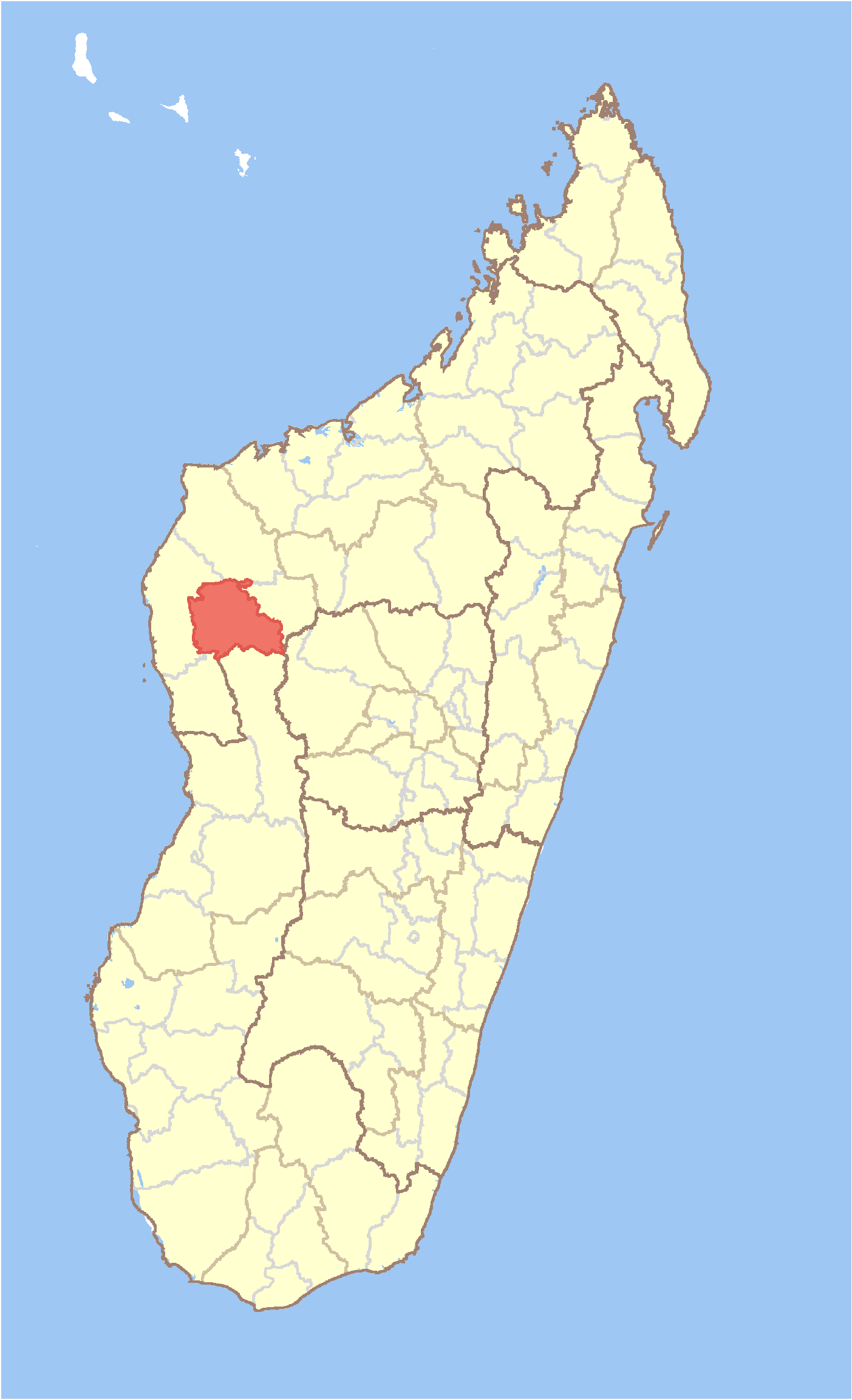 Map of Madagascar with Morafenobe District highlighted